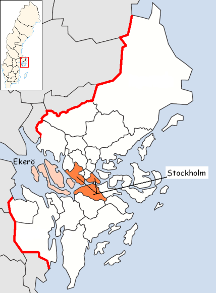 Ekerö Municipality in Stockholm County Designed by me. Mere outlines are a PD source from